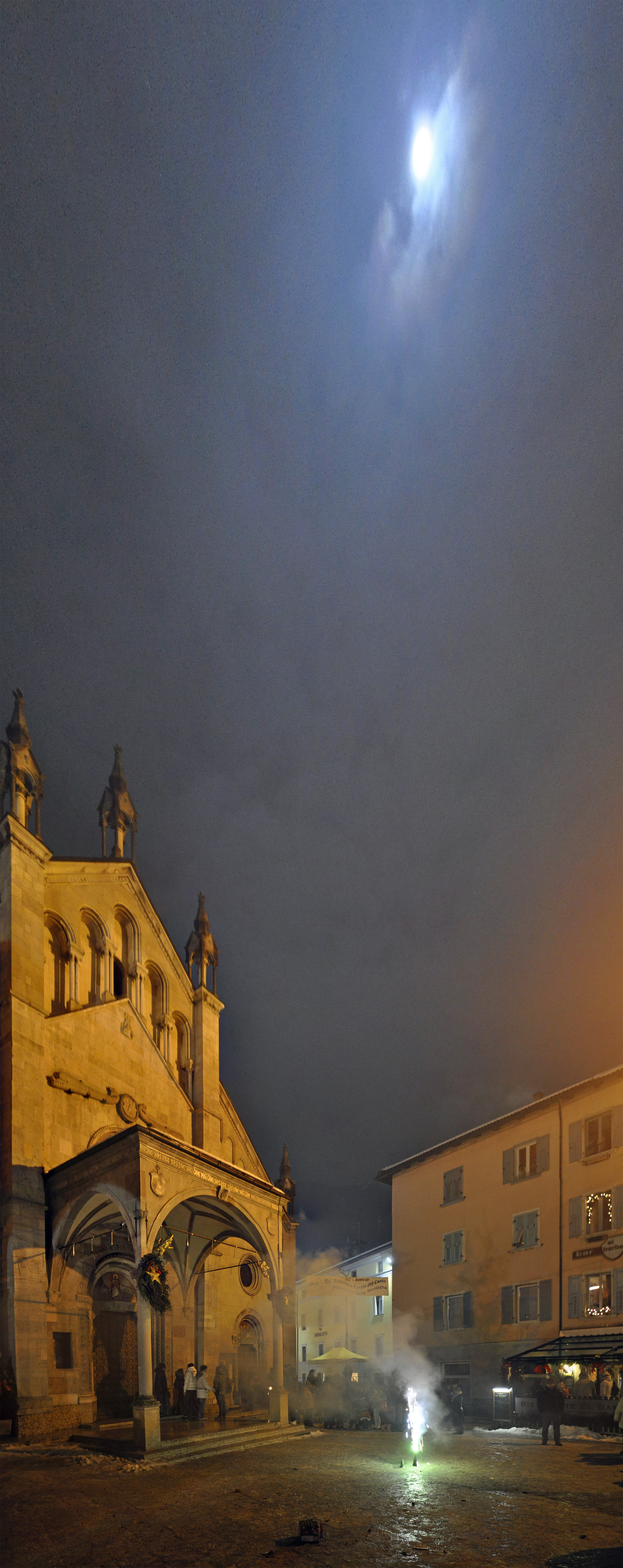 New Year's Eve Celebrations - Malè, Trento, Italy